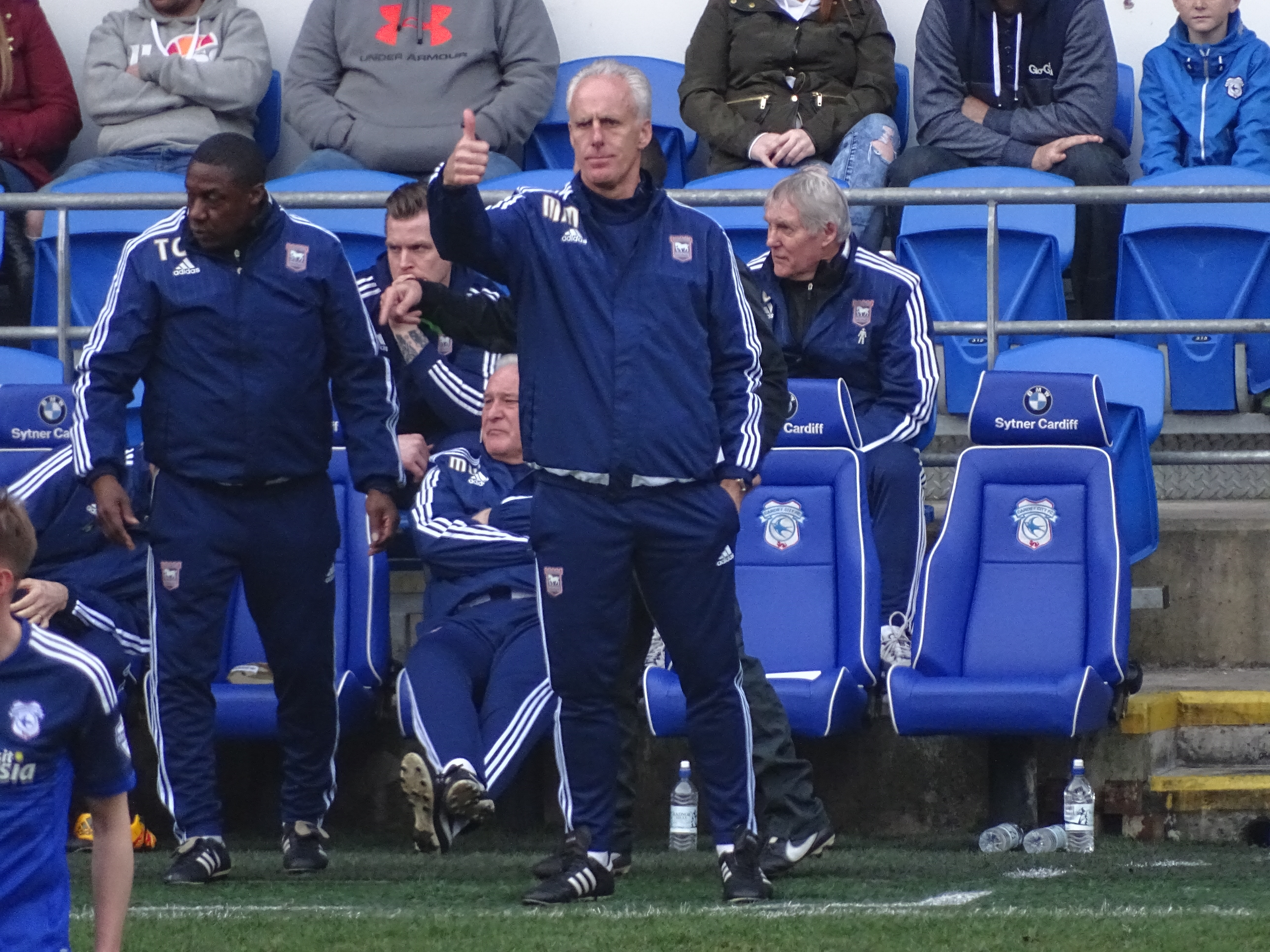 Football manager Mick McCarthy in 2016.